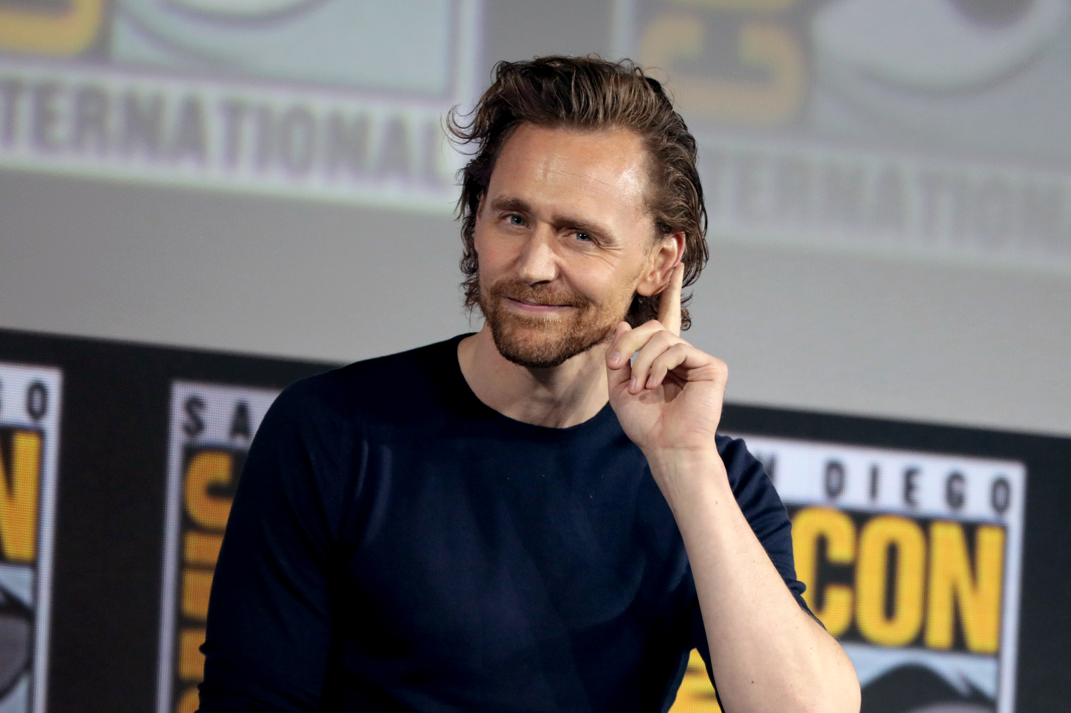 Tom Hiddleston speaking at the 2019 San Diego Comic Con International, for "Loki", at the San Diego Convention Center in San Diego, California.